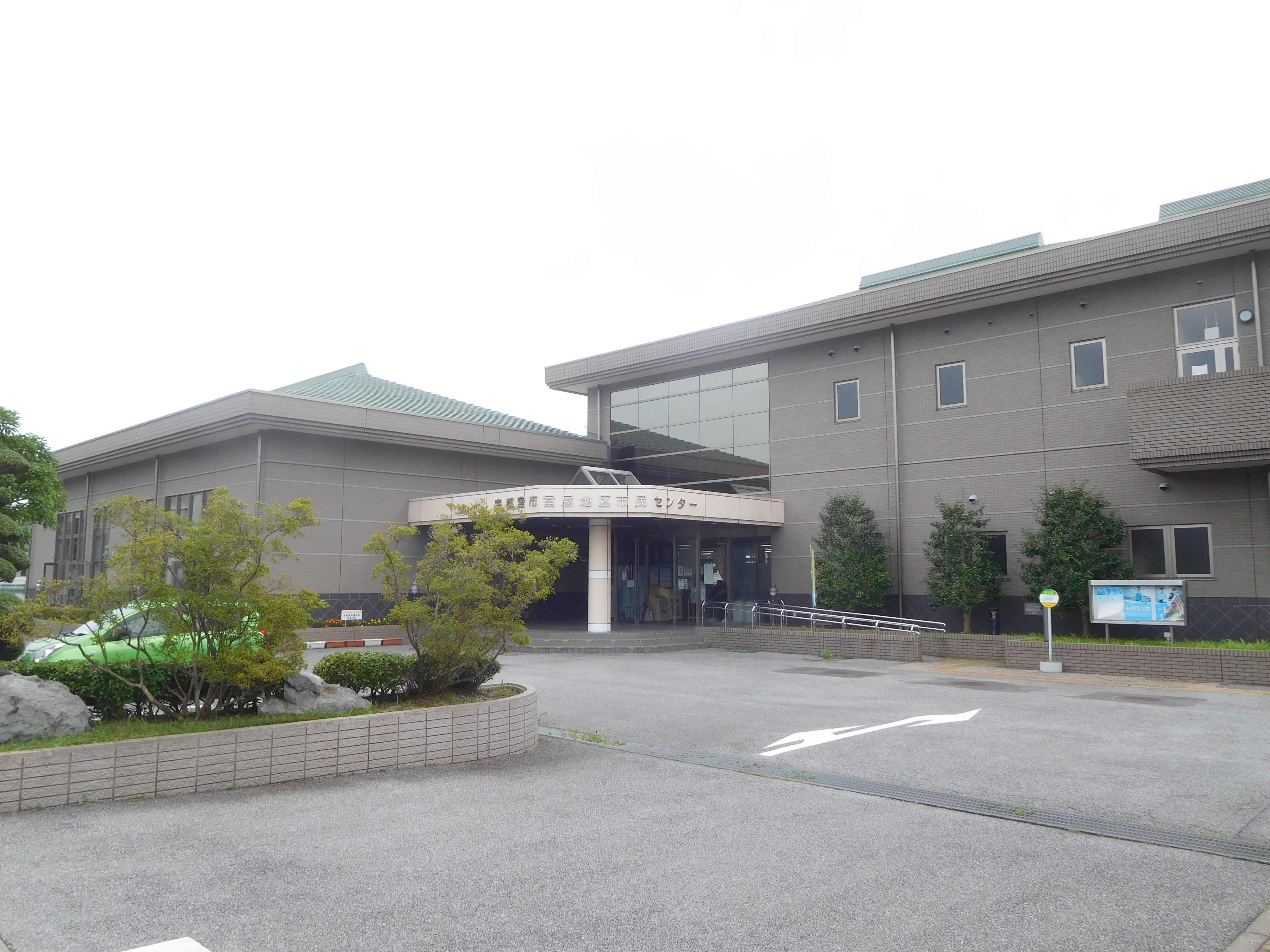 This is Tomiya District Citizens' Center in Utsunomiya, Tochigi, Japan.